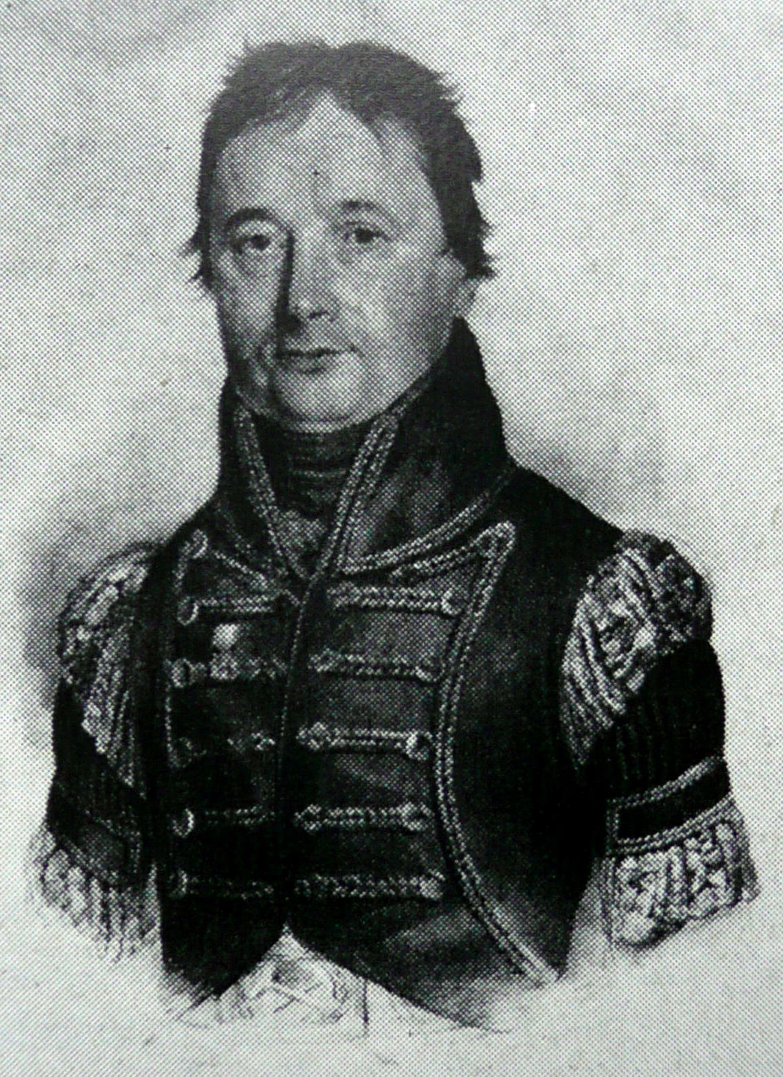 Johann Carl Freiesleben (1774-1846), saxon miner and jurist; from 1838 to 1842 director (Oberberghauptmann) of the saxon mining office.